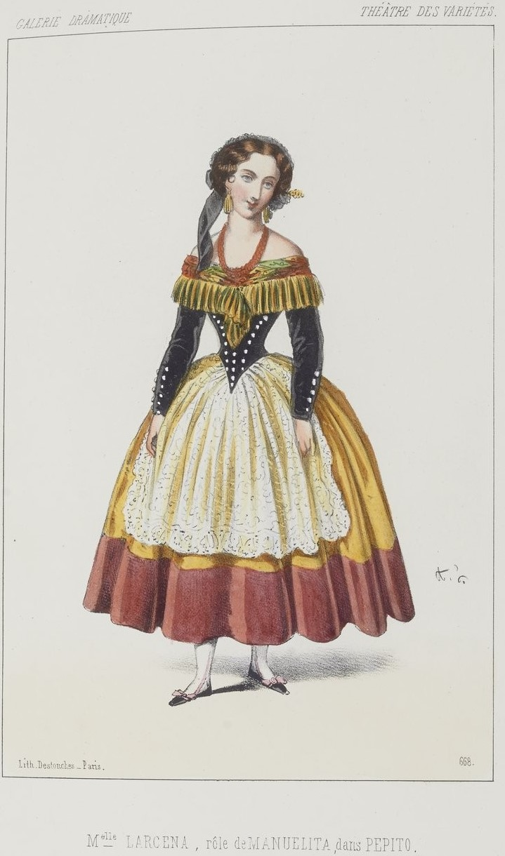 Mlle Elisabeth-Gabrielle Larcéna in the role of Manuelita in Pépito, opéra comique by Jacques Offenbach, engraving by Alexnadre Lacauchie